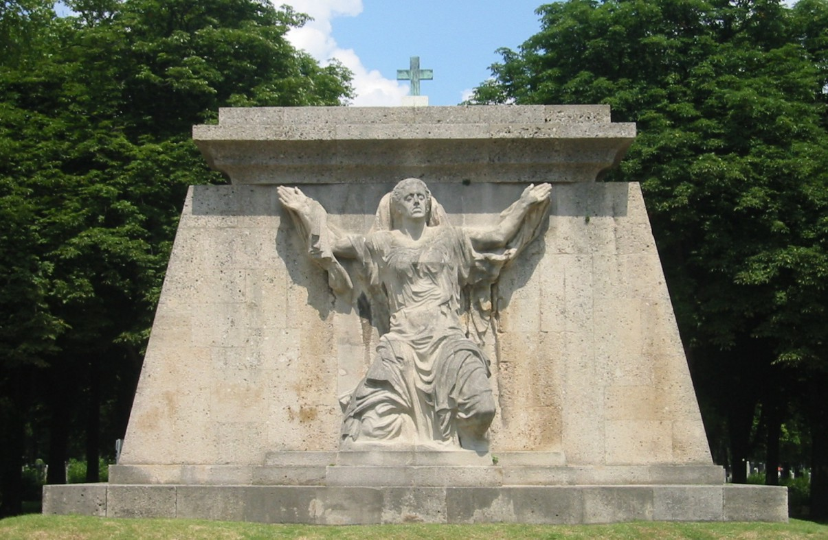 Rear view of the World war one memorial on the Zentralfriedhof in Vienna